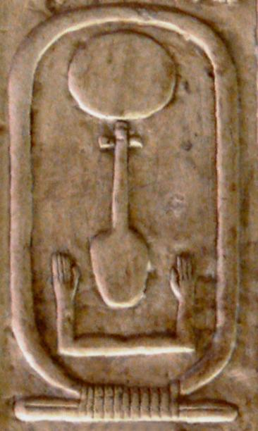 Royal cartouches 15 through 19